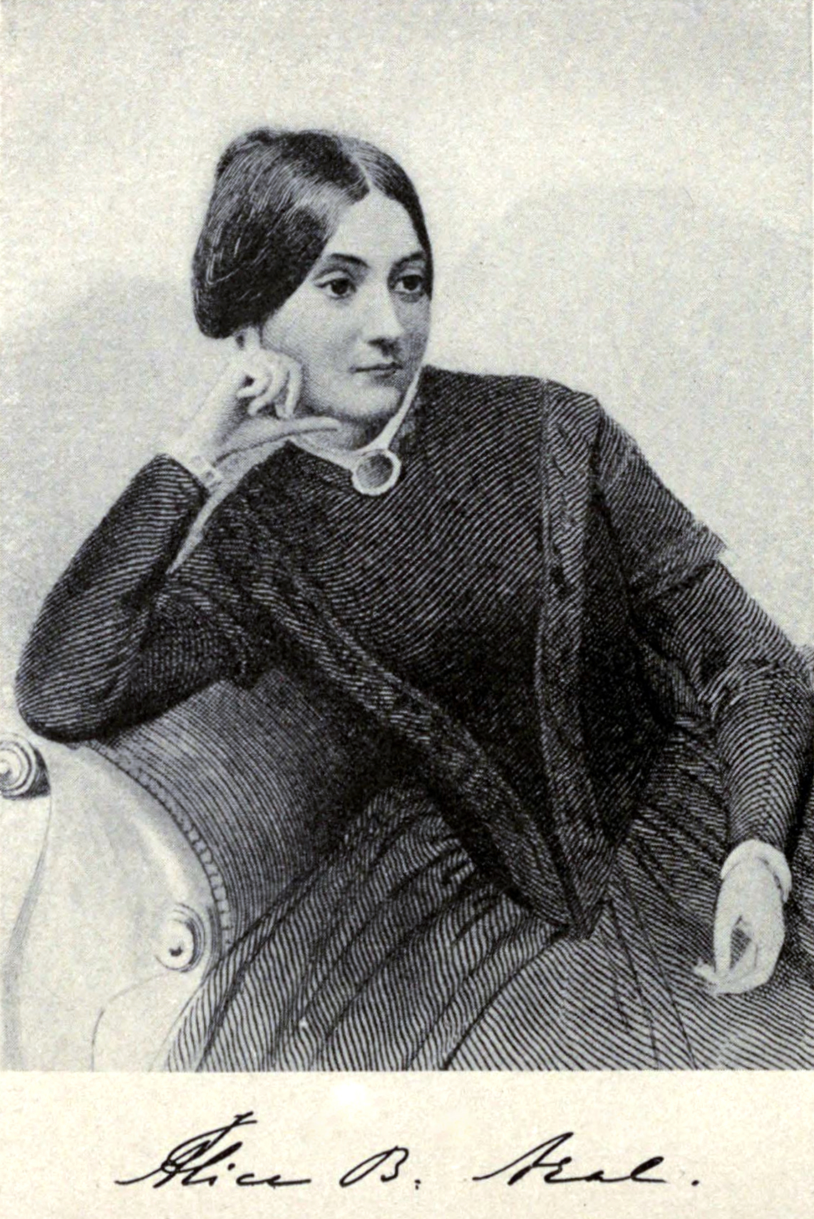 Image of Alice B. Neal